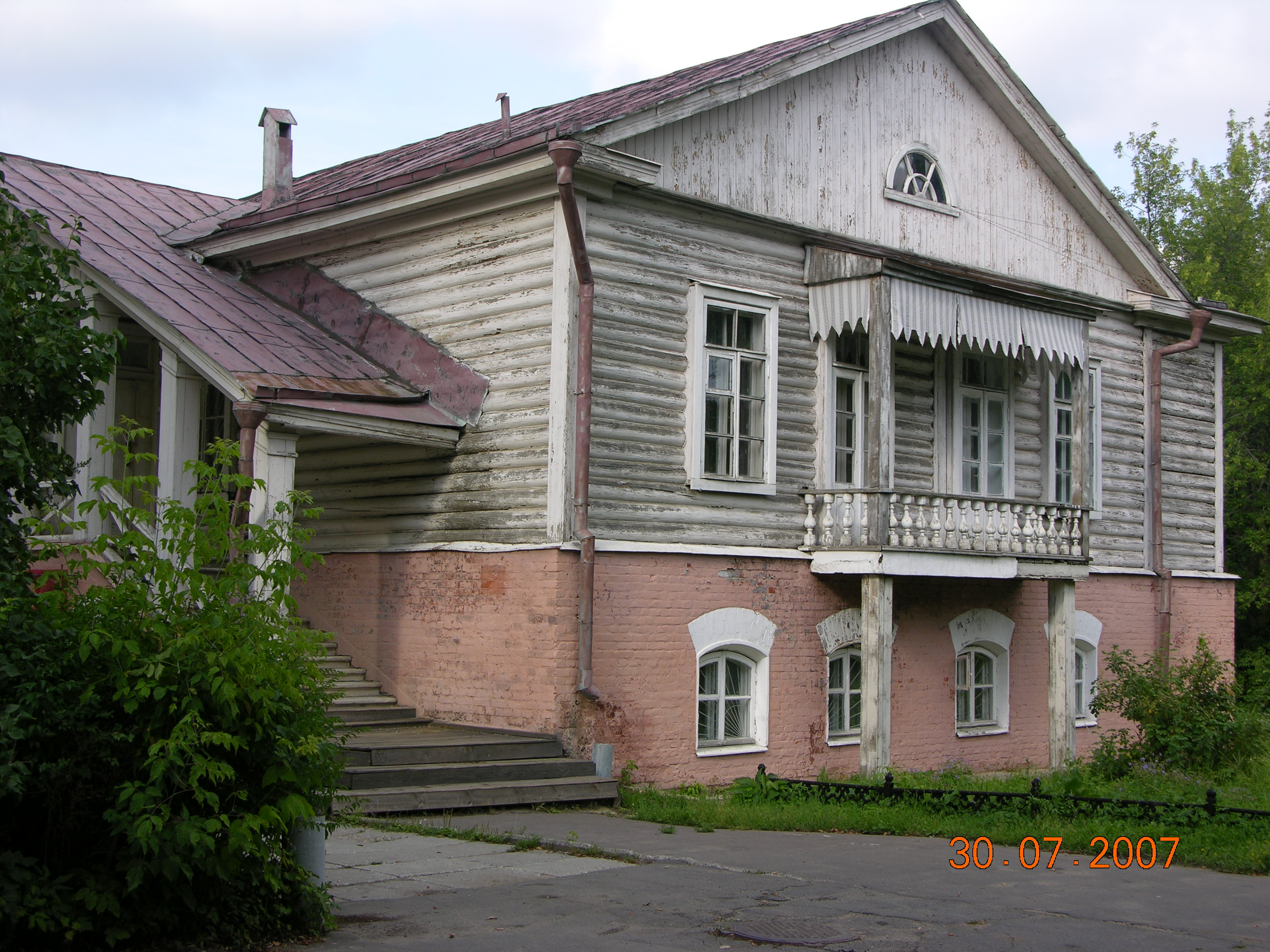 Moscow. Manor Znamenskoye - Sadki . Outbuilding .